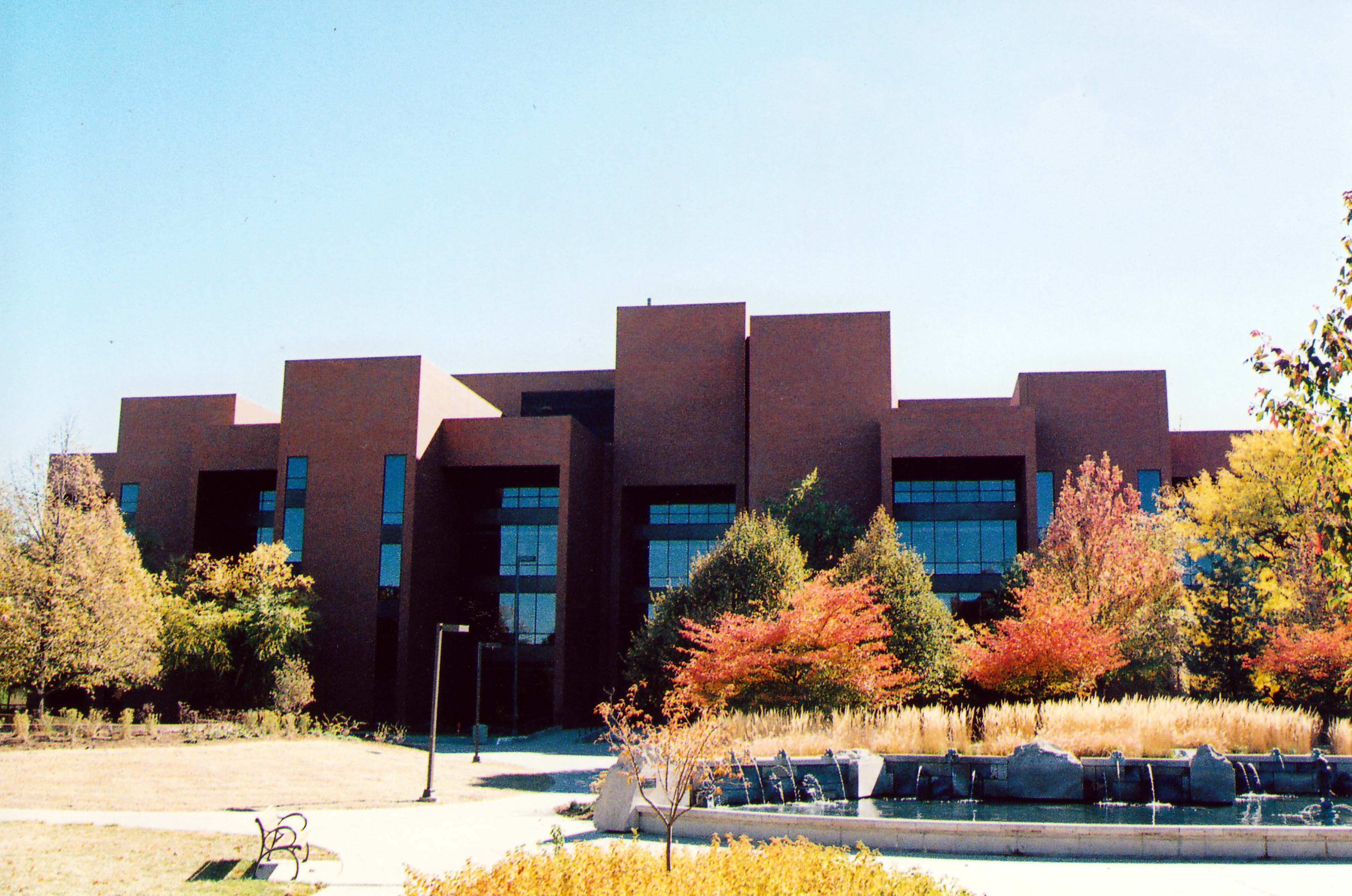 Bracken Library, viewed looking south from Central Green. The Frog Baby Fountain is in the foreground.